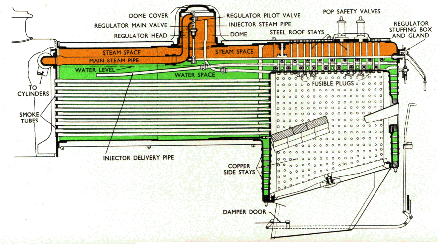 Sectional view of steam locomotive boiler.